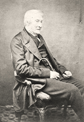 George Percy, 5th Duke of Northumberland (1778-1867)